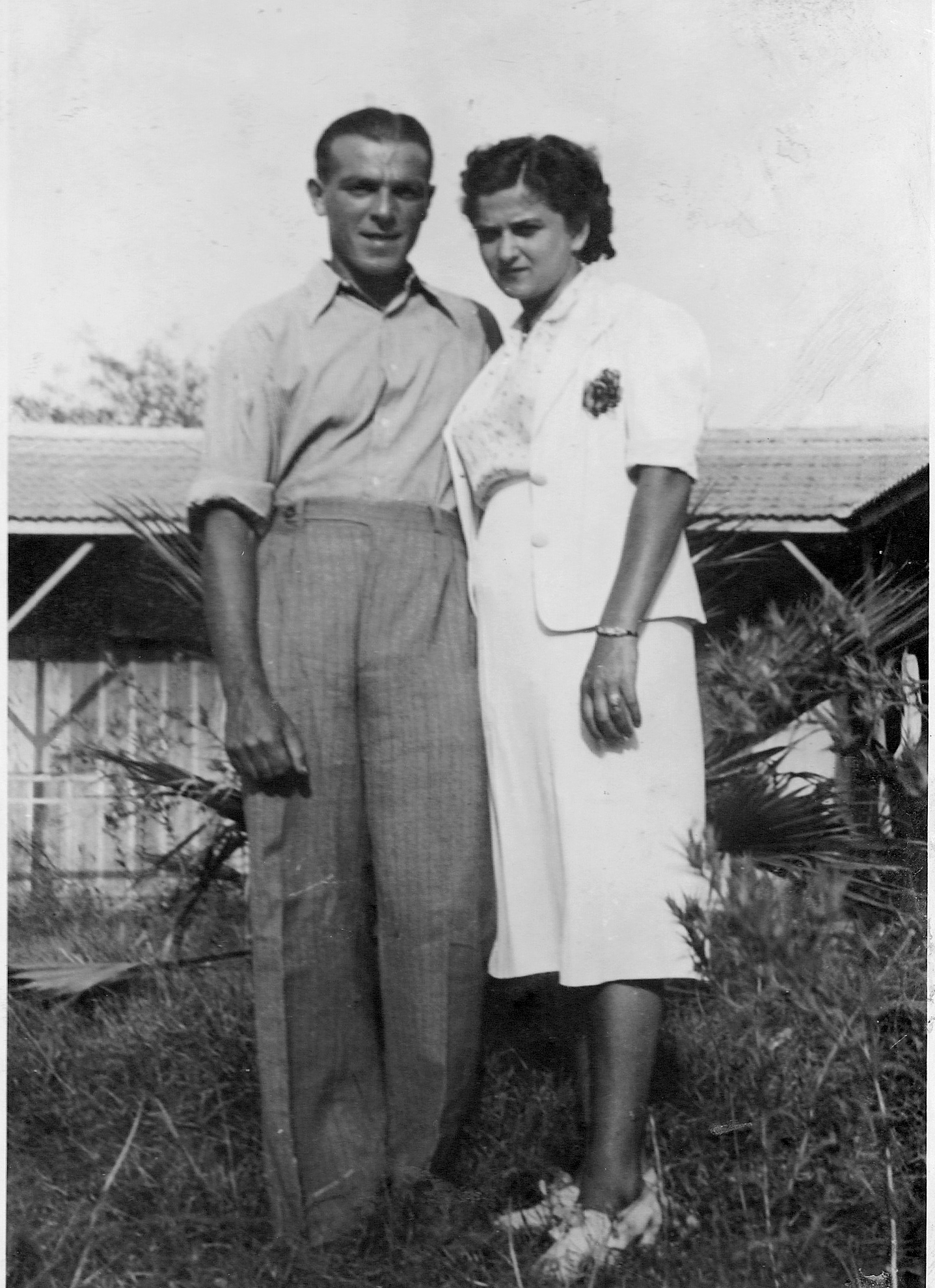 Lora and Haim ben Dori